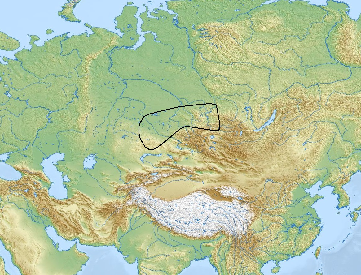 Map of the Karasuk culture, based on a map printed at page 325 in Encyclopedia of Indo-European Culture, which was edited by J. P. Mallory and Douglas Q. Adams, and published by Taylor & Francis in 1997.